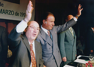 BUENOS AIRES- NORMALIZACION DEL INSTITUTO NACIONAL DE SERVICIOS SOCIALES PARA JUBILADOS Y PENSIONADOS. (SPYD 12-03-97)